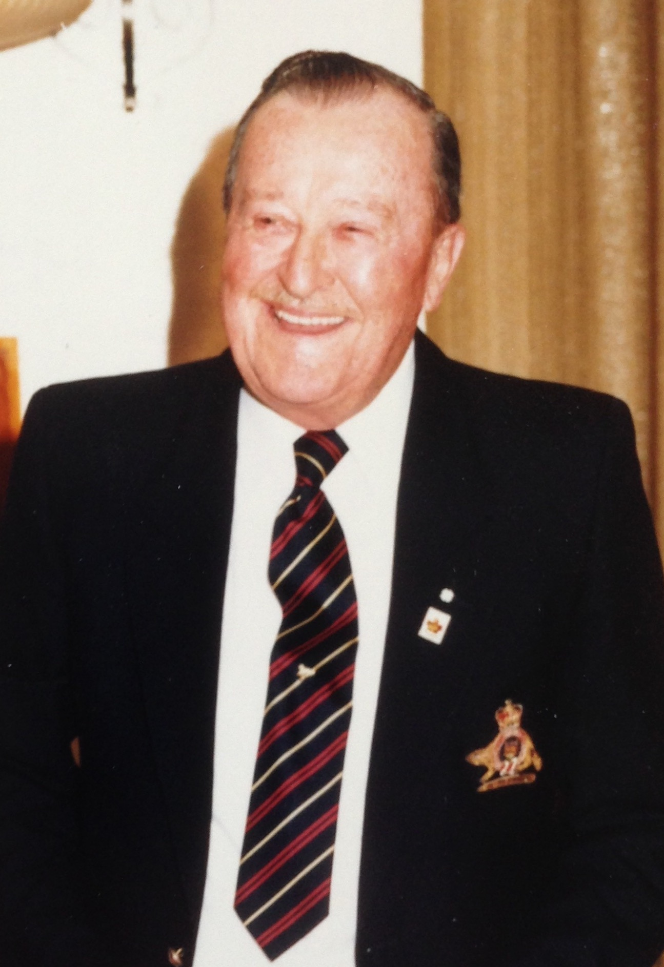 Colonel (ret) Jean Berthiaume présidant le comité organisateur des festivités du 155e anniversaire du Corps de Cadets de St-Hyacinthe en 1986